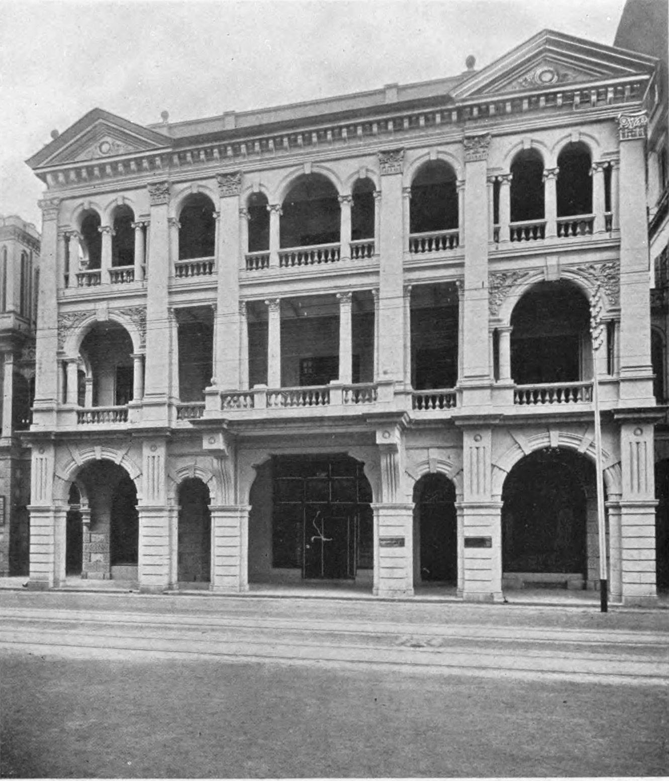 Nederlandsch Indische Handelsbank